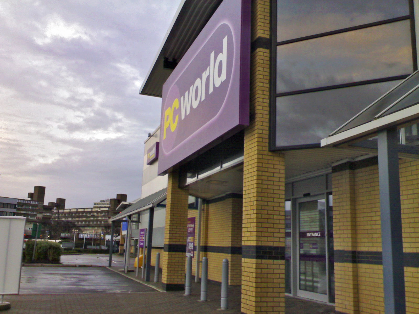 According to the original uploader (see (*) below), this is the Southampton PC World store displaying a proposed new logo. (In the end, another logo was adopted instead, and this one was not fully rolled out).